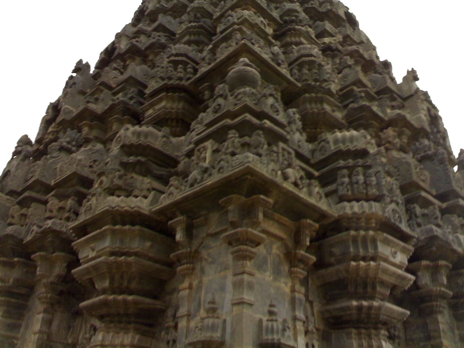 Annigeri Amriteshwara Temple Source and Author : Manjunath Doddamani, Gajendragad / Hubli, Karnataka(North), India